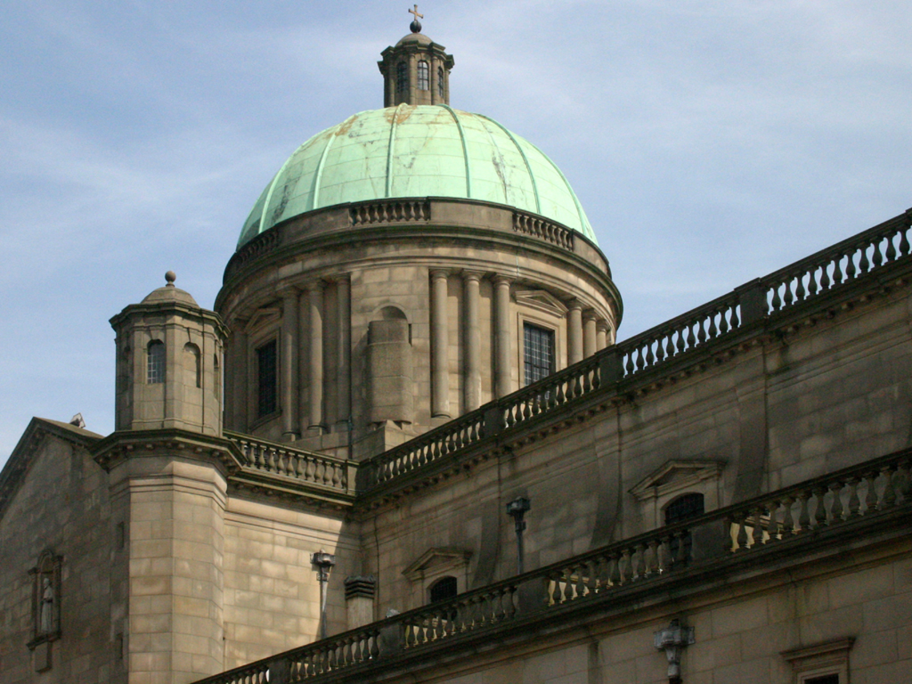 Dome of Birmingham Oratory, Edgbaston, West Midlands